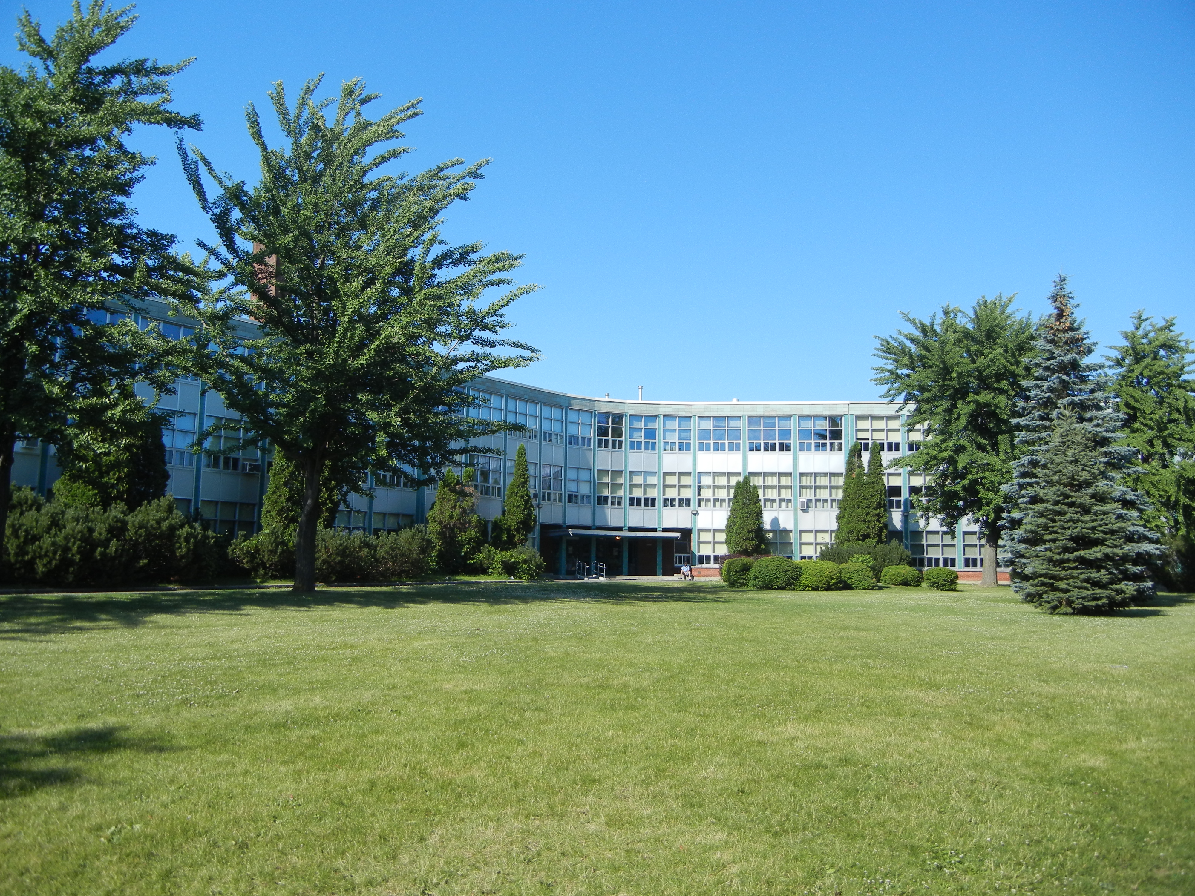 A photo of the main entrance to Lakeside Academy with its front lawn in the foreground. It is a high school in Lachine, Quebec, Canada.